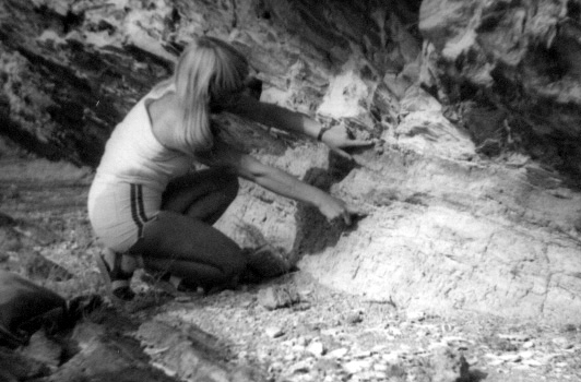 Nyereg-hegyi Cave in Tihany.